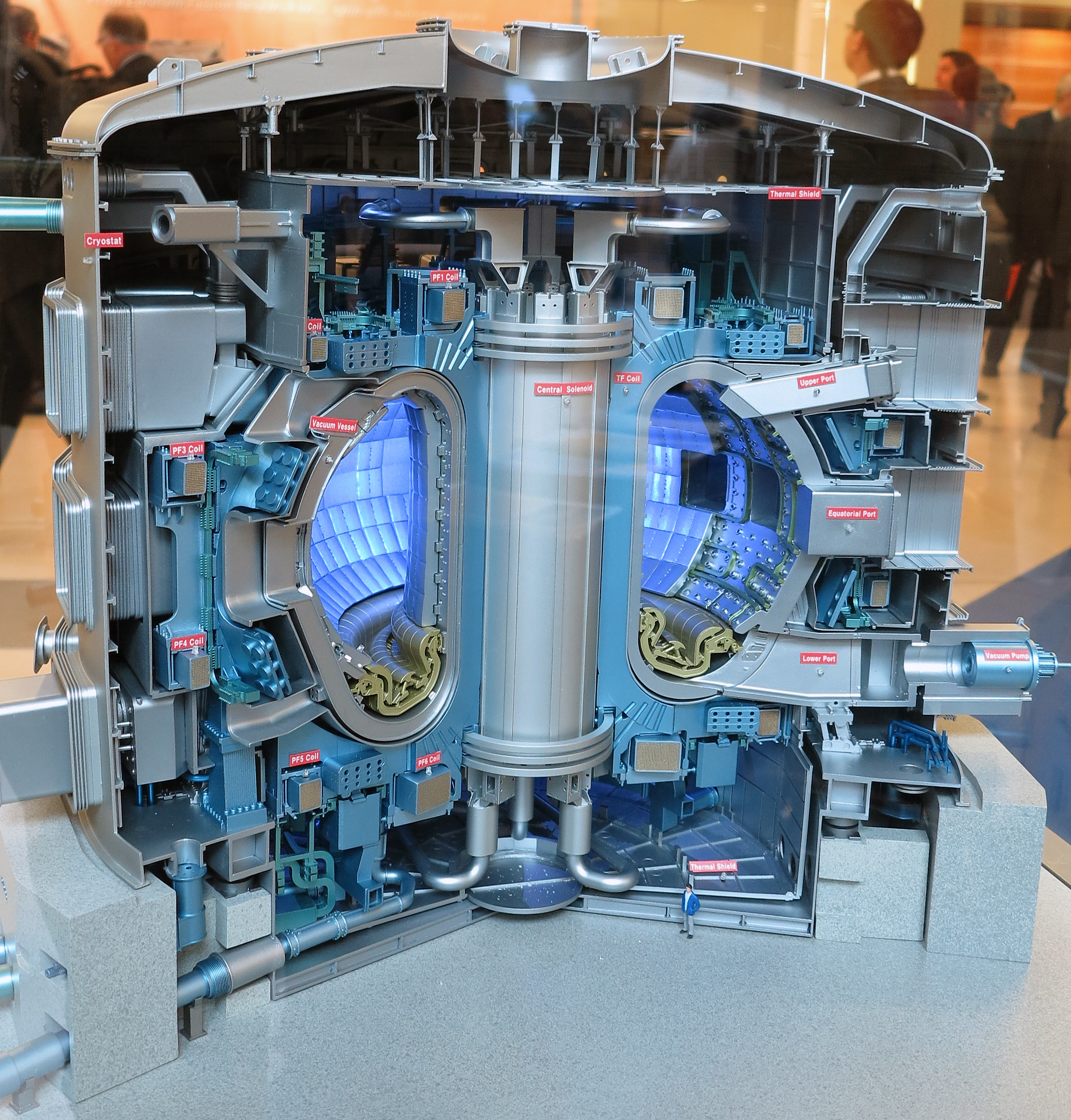 ITER exhibits at the International Fusion Energy Days 2013. Monaco. 2 December 2013 Photo Credit: Conleth Brady / IAEA